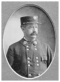 Portrait of Walter Scott Moore, also known as W.S. Moore, (1853–1919) was the president of the Los Angeles, California, Common Council in 1883–84 and chief engineer of the city's Fire Department at the turn of the 19th-20th centuries. He was ousted during an investigation into fraud in the department. He was the Republican candidate for California Secretary of State in 1886 and also ran for the state Senate.